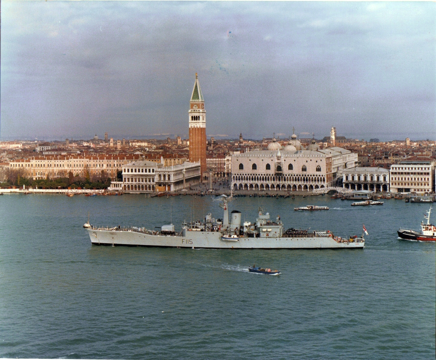 HMS Berwick (F115), Royal Navy Rothesay class Type 12I frigate